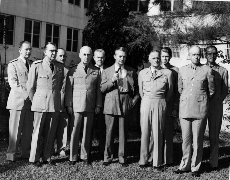 Top officials of the National Military Establishment meet with James Forrestal in Key West, Florida. Top officials of the National Military Establishment attend a special meeting to discuss military problems with Secretary of Defense James Forrestal at the Naval Base, Key West, Florida. Shown, from left to right, are: Vice Admiral Arthur W. Radford, USN, Vice Chief of Naval Operations; Admiral Louis E. Denfeld,USN, Chief of Naval Operations; Major General Alfred M. Gruenther, USA, Director, Joint Staff; Fleet Admiral William D. Leahy, USN, Chief of Staff to the President; W. J. McNeil, Special Assistant to the Secretary of Defense; Secretary of Defense James Forrestal; General Carl Spaats, USAF, Chief of Staff, Air Force; Lt. General Lauris Norstad, USAF, Deputy Chief of Staff for Operations, Air Force; General Omar N. Bradley, USA, Chief of Staff, U.S.Army; and Lt. General Albert C. Wedemeyer, USA, Director, Plans and Operations, Army General Staff.